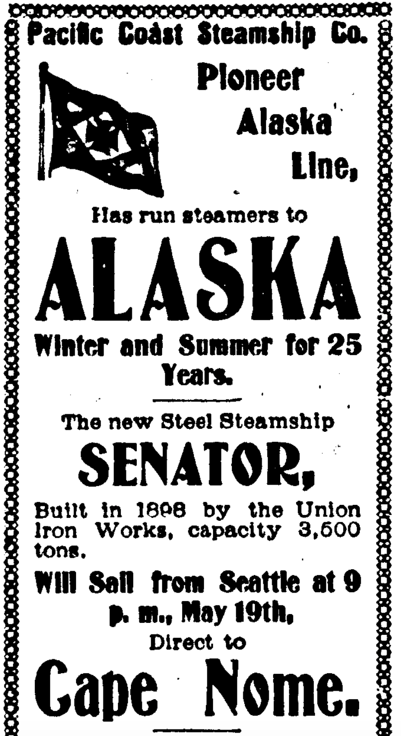 Advertisement for the steamship Senator sailing from Seattle to Nome, Alaska. This particular graphic was run in the Seattle Daily Intelligencer on April 10, 1900, but identical ads were run on many other dates in other papers.